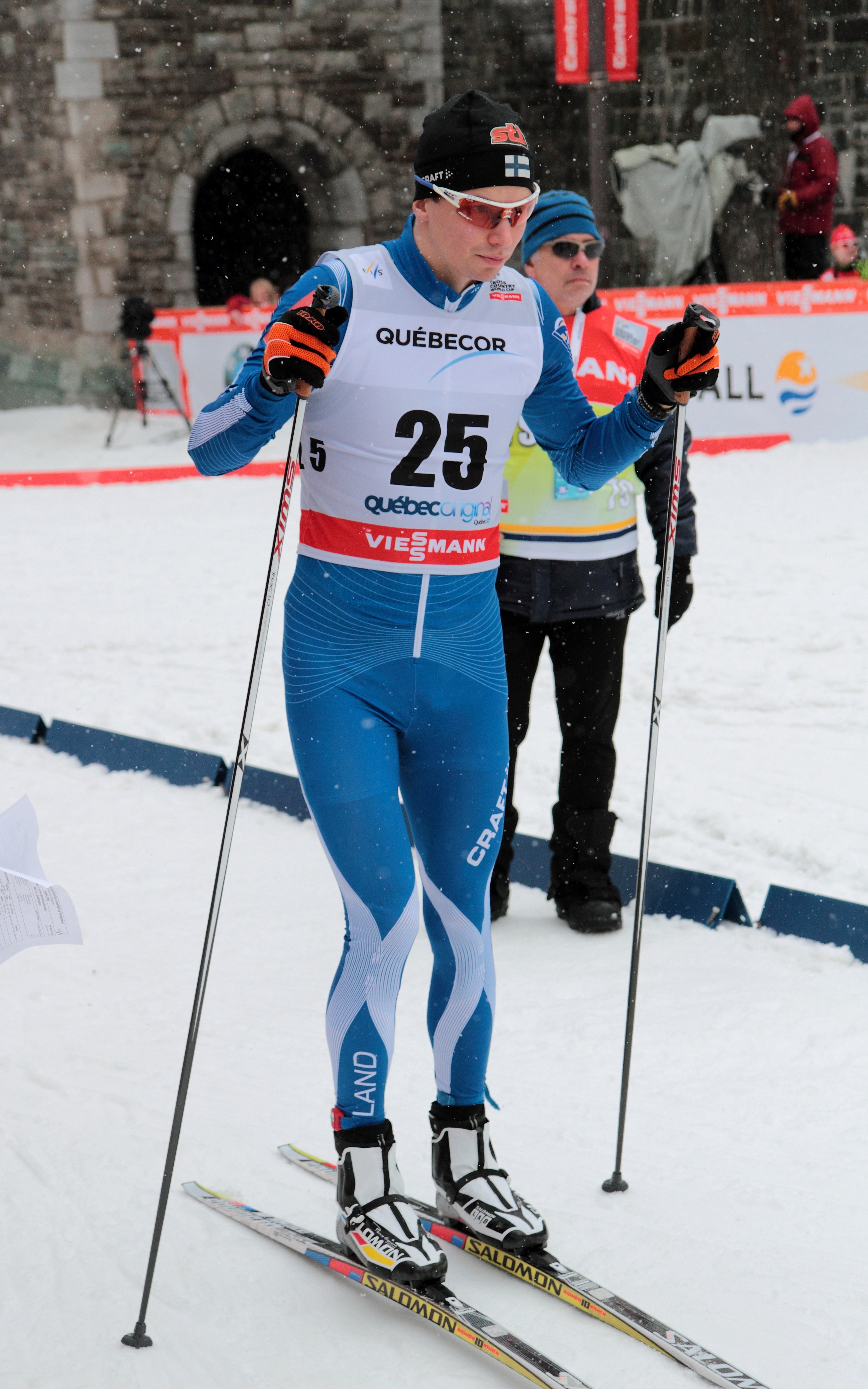 Martti Jylhä, FIS Cross-Country World Cup 2012, Quebec, Canada.